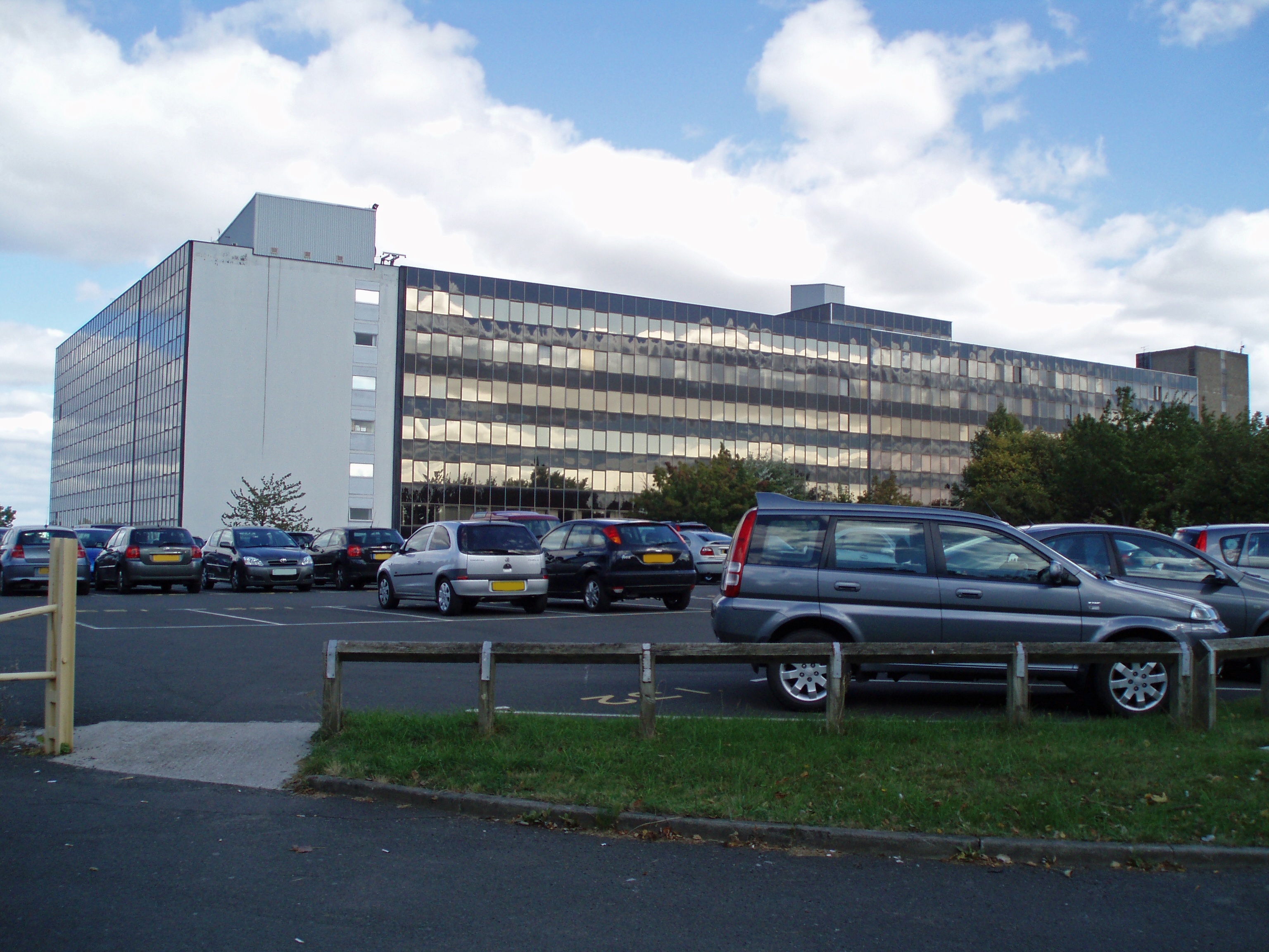 A photograph of some of the Regent Centre office buildings, in Gosforth, Newcastle upon Tyne, England